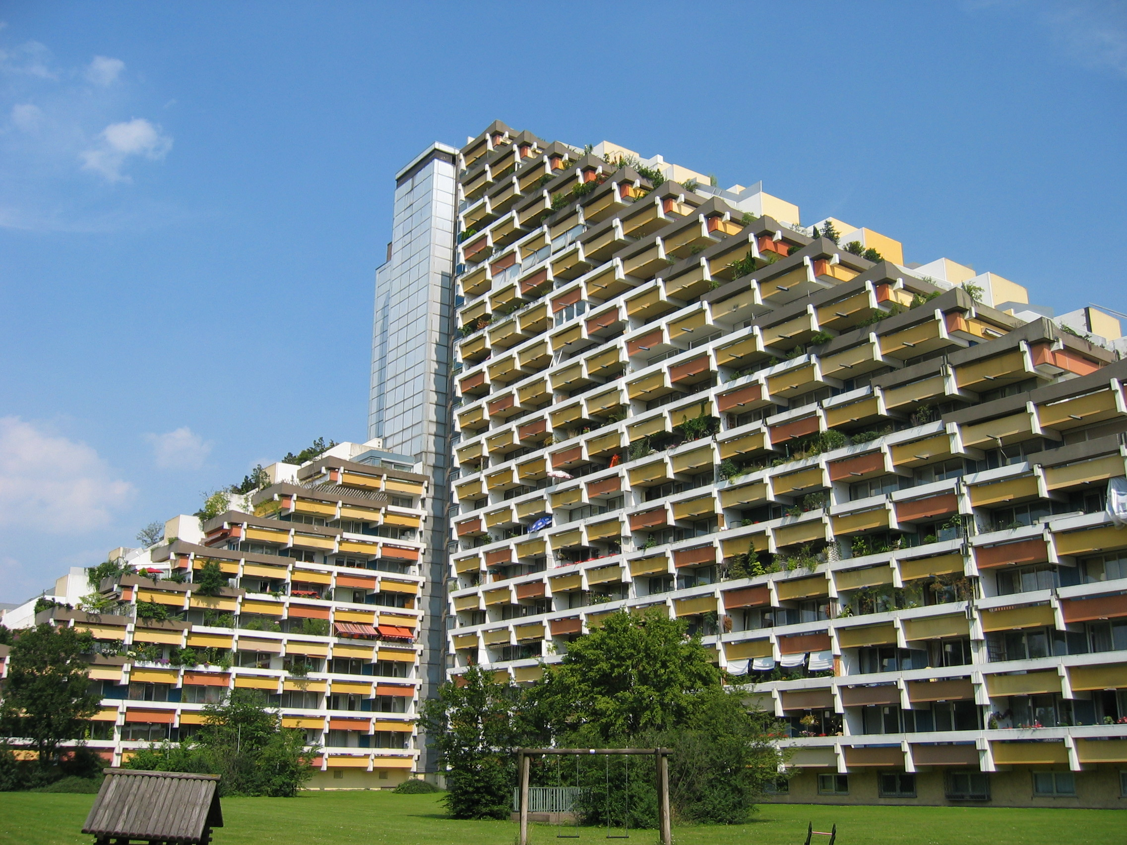 Pharao-Haus (Pharao-Building), South Viewing, in Munich, Bavaria.